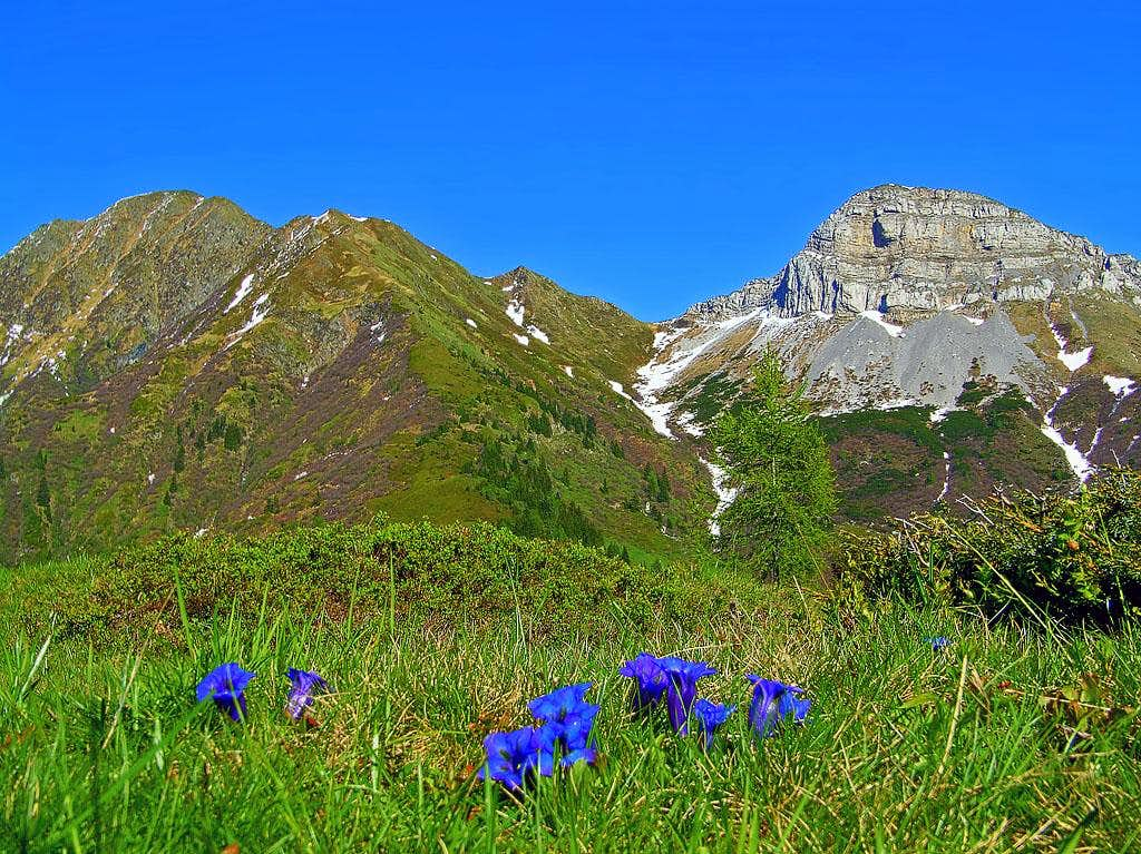 Both mountains are made of carboniferous rocks, but the older Hochwipfel rocks are mainly slate and sandstones, while the younger, light gray rocks of Hochwipfel consist also of some limestone.